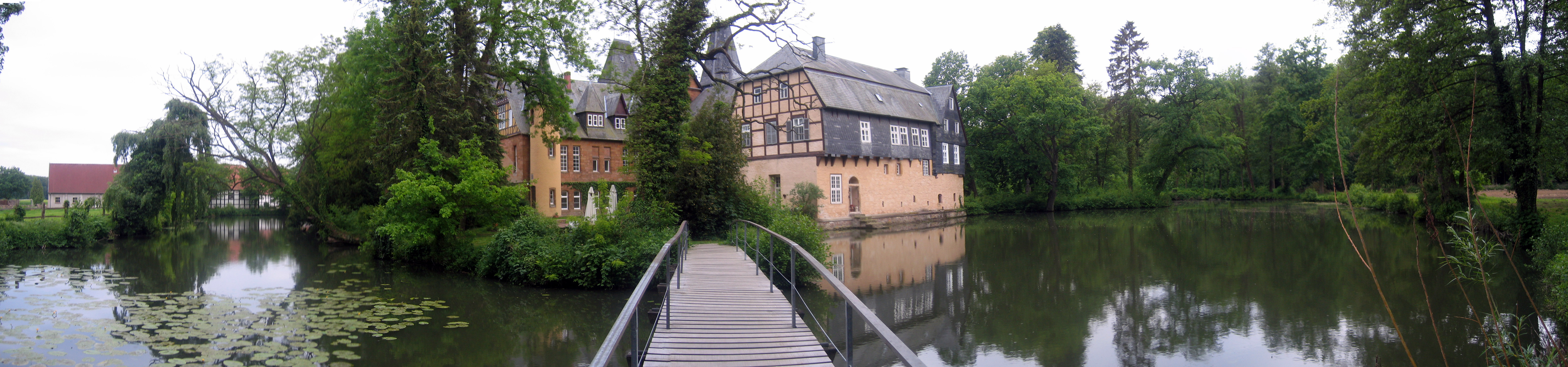 Hollwinkel castle in Preußisch Oldendorf, District of Minden-Lübbecke, North Rhine-Westphalia, Germany.